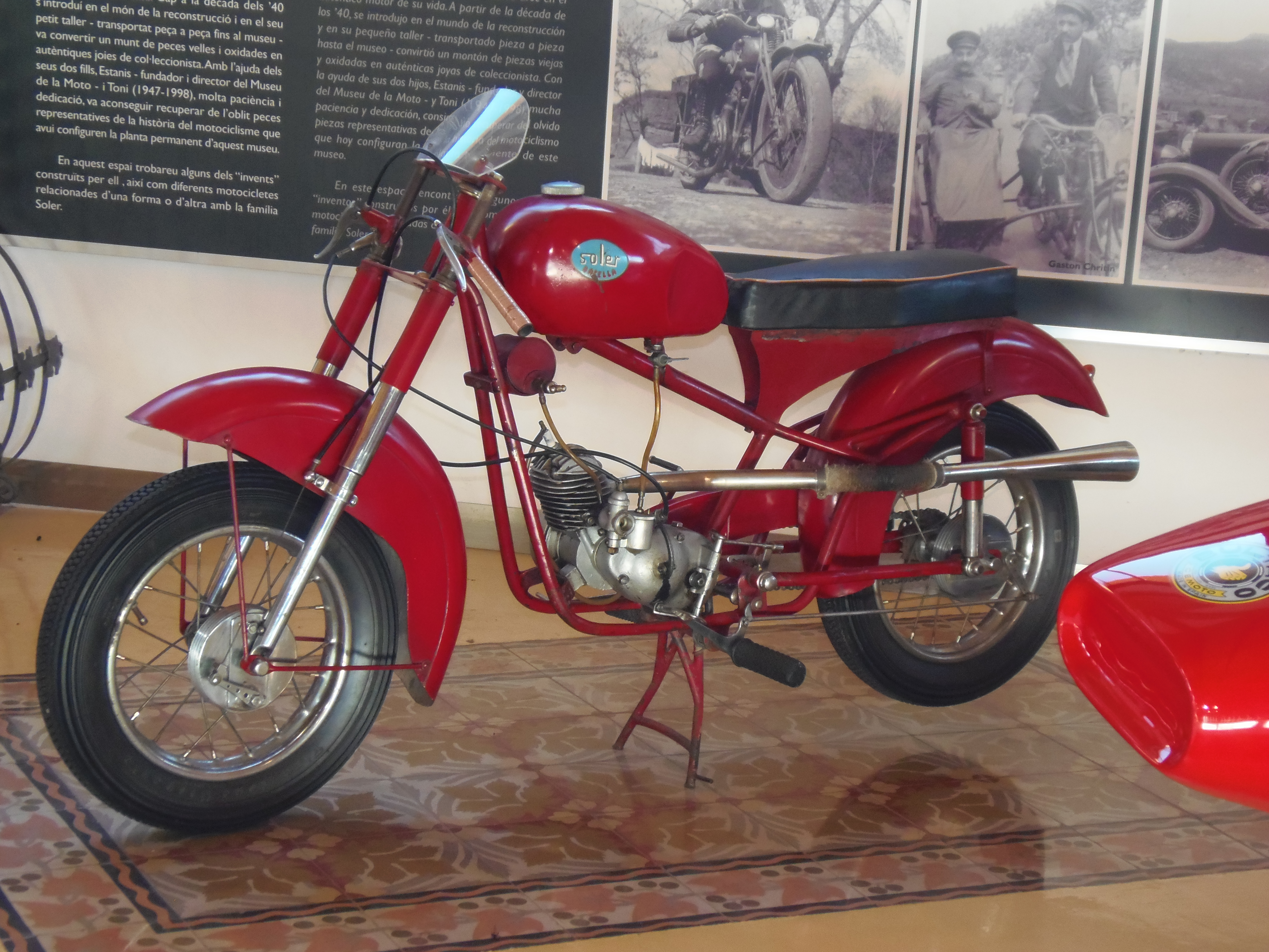 Soler Rápida 50 (1954), with an Iresa engine. Mario Soler built this small bike for their children Estanis and Toni.